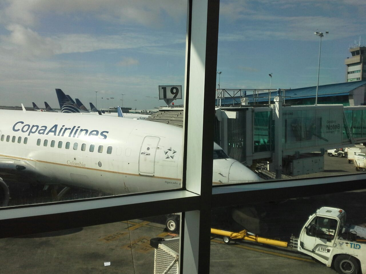 Tocumen International Airport, in Panama